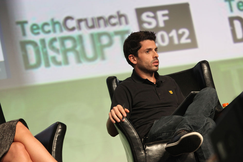 This is a photo of Joel Simkhai at TechCrunch Disrupt SF in 2012.